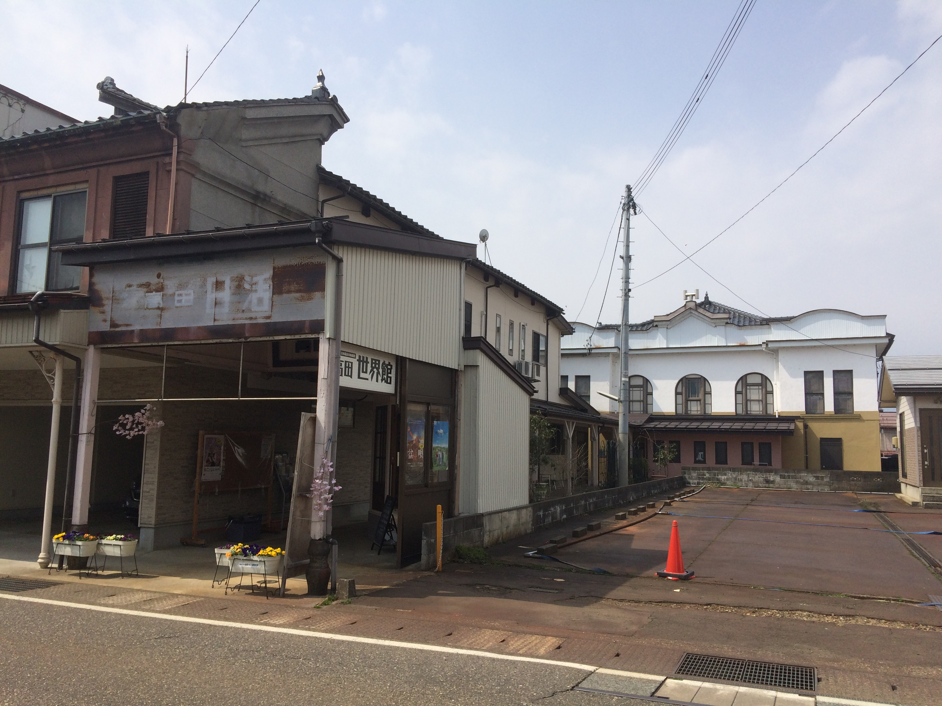 The Takada Sekaikan is one of the oldest wooden structured operating film theatres in Japan, as of 2019.